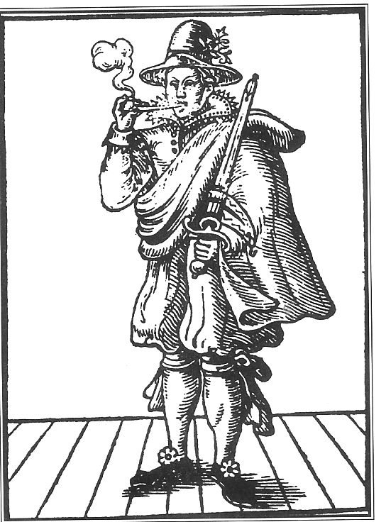 From Haynes, Alan: Sex in Elizabethan England, page 119. Wrens Park Publishing, 1997 This image was from the title-page of The Roaring Girl